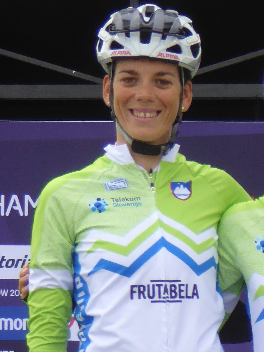 Eugenia Bujak (Slovenia), prior to the women's road race at the 2018 UEC European Road Cycling Championships in Glasgow.